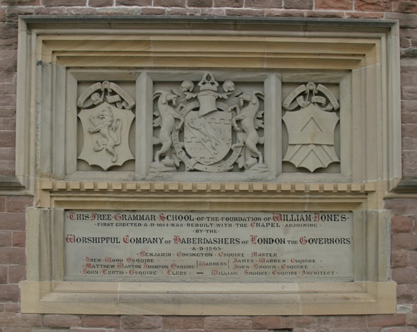 Monmouth Boys School Plaque in wall of Boys School